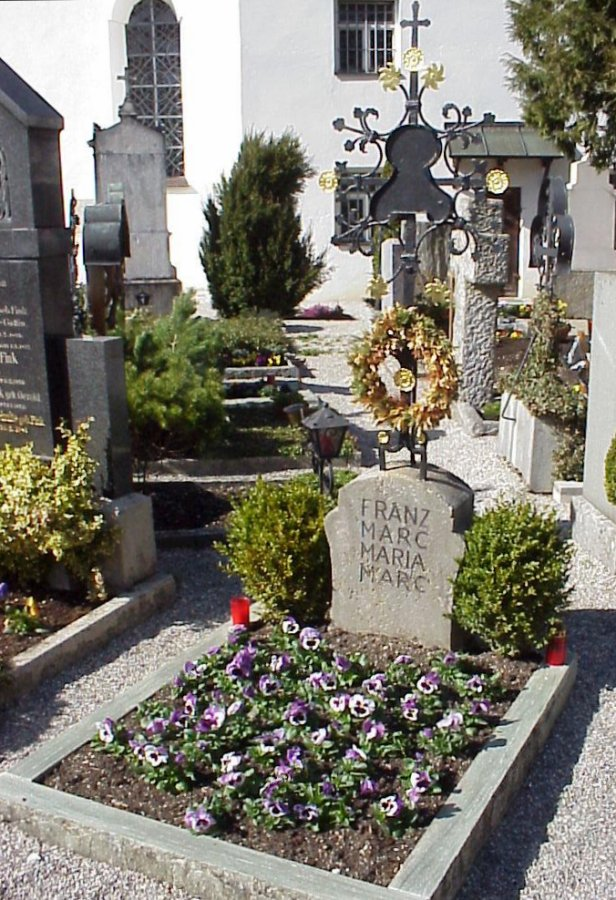 Grave of Franz Marc in Kochel am See, Upper Bavaria, Germany